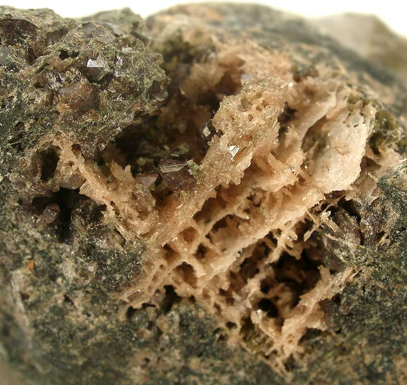 Hureaulite, Leucophosphite Locality: White Elephant Mine, Cicero Peak, Pringle, Custer District, Custer County, South Dakota, USA (Locality at ) Size: small cabinet, 9.8 x 5.4 x 3.4 cm Leucophosphite and Hureaulite Professor W.L. Roberts, the noted authority on phosphates of the amazingly rich and varied deposits in Custer County, sold this to John White at the Seattle Show in 1971. On the back of White's label, he notes that " Prof. Roberts says that this is one of the three best known specimens of Leucophosphite". The large, sharp brown crystals are robust and stereotypic for the species, and are not the typical micros. Whether that holds true still today, I am not sure. However, the image gallery on MINDAT shows that most examples are micros, or clusters of micros to 7mm. These sharp, euhedral, obvious and eye-visible crystals individually reach 3 mm or so. They sit perched in a very interesting matrix of finely reticulated hureaulite crystals which cross the protected cavity in this rock, in which the leucophosphite has grown. Ex. John White Collection.